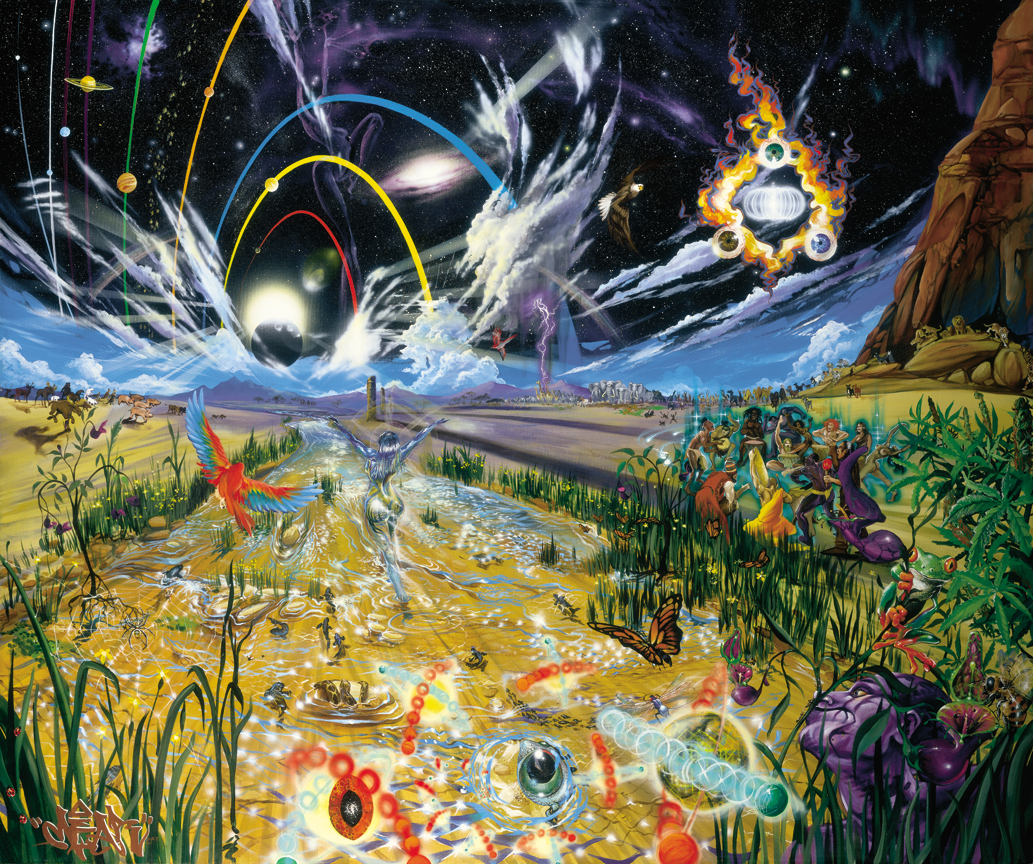 A rendition of life on planet earth